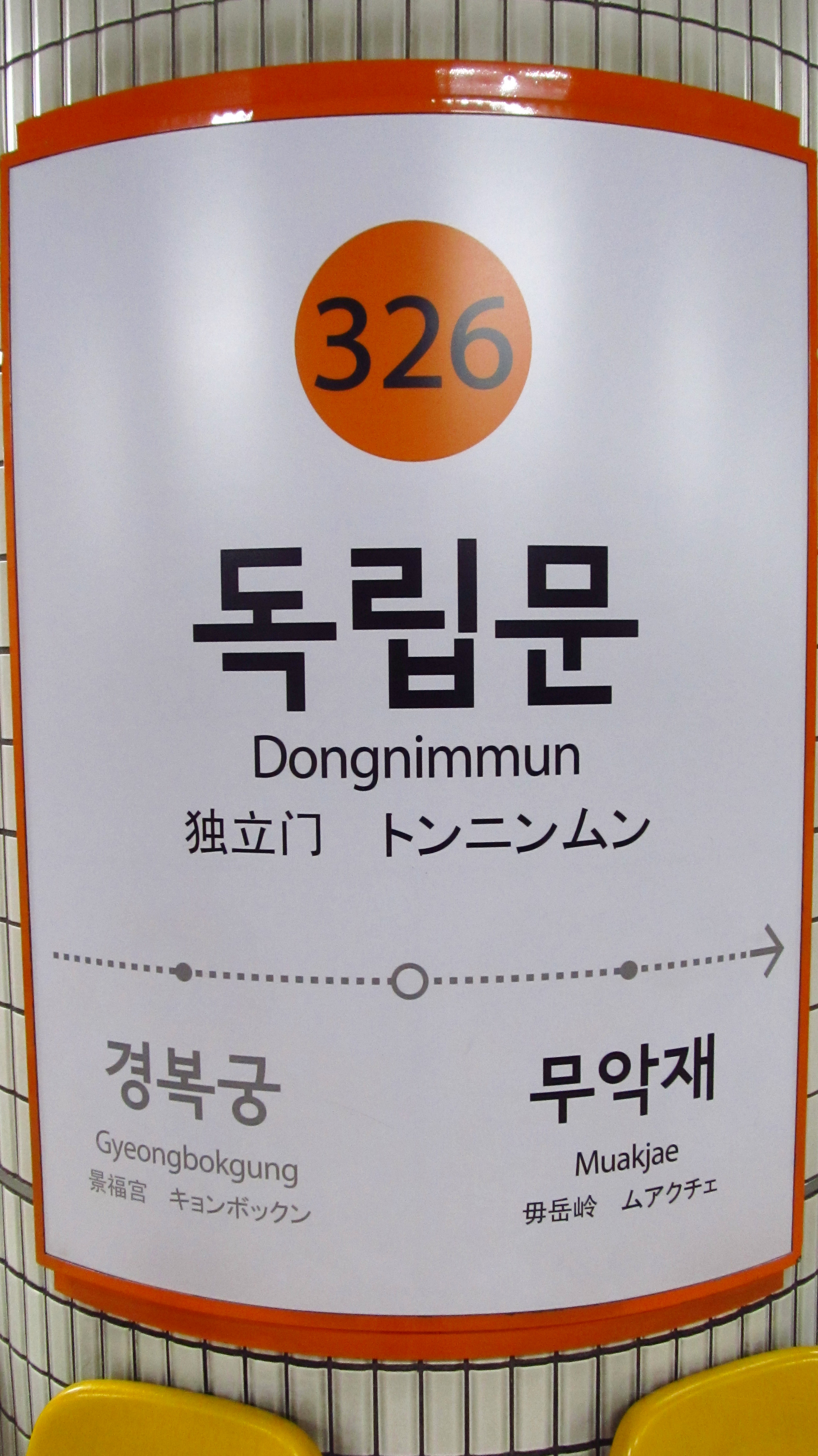 A sign of Dongnimmun Station on Seoul Subway Line 3